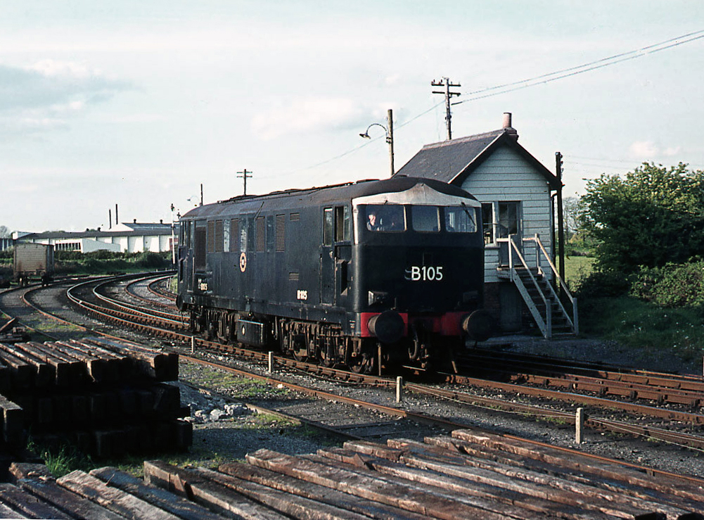 Built by the Birmingham Railway Carriage & Wagon Co in 1956-57, CIE's B101 class diesel locomotives were rare beasts by 1971. Passing the now long demolished Ennis north signal cabin, B105 was on some now forgotten journey. This locomotive was scrapped in March 1987